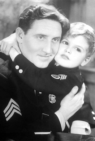 Cropped publicity photograph for the 1932 film Disorderly Conduct, featuring Spencer Tracy and Dickie Moore.